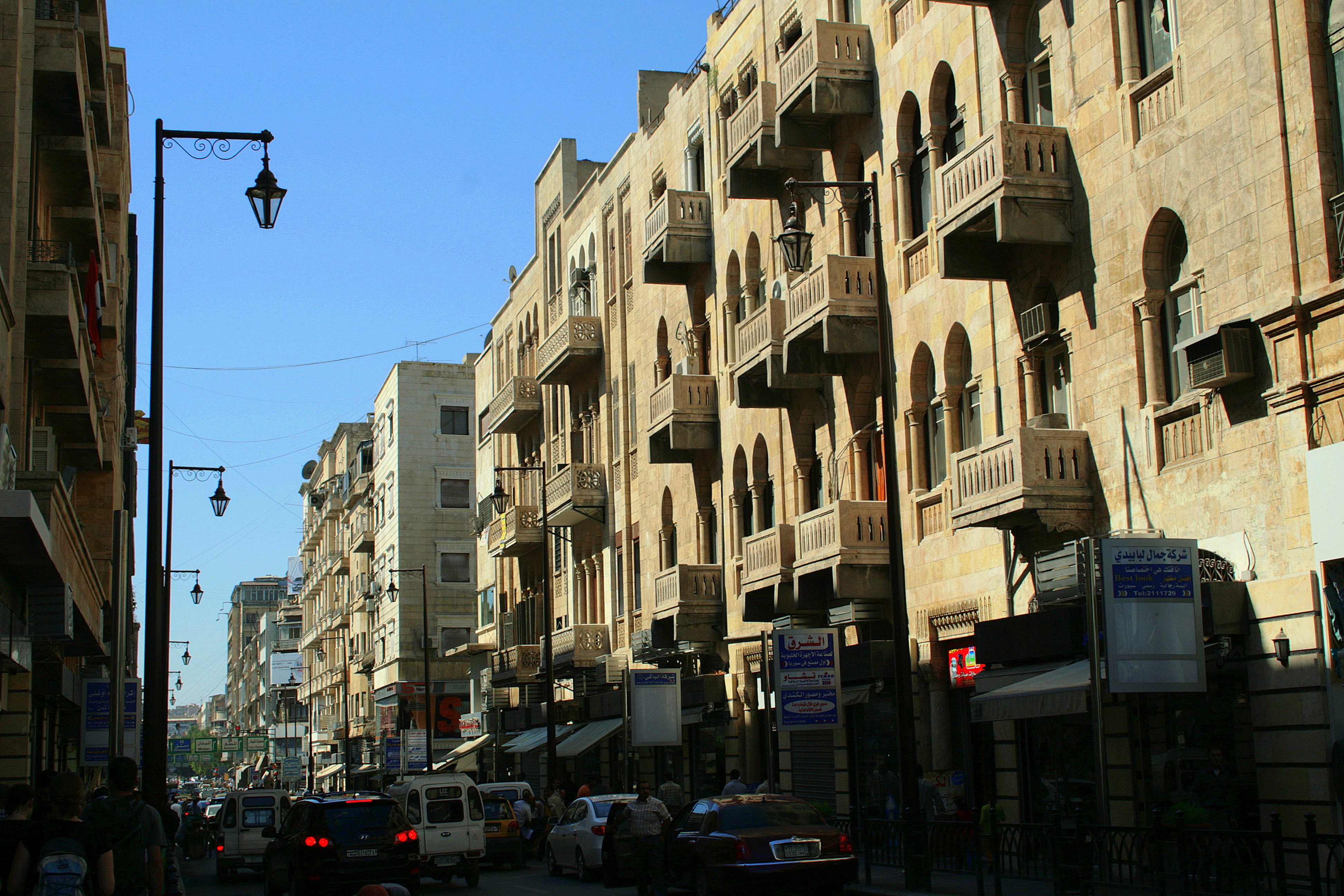 Shukri al-Quwatli street in Aleppo